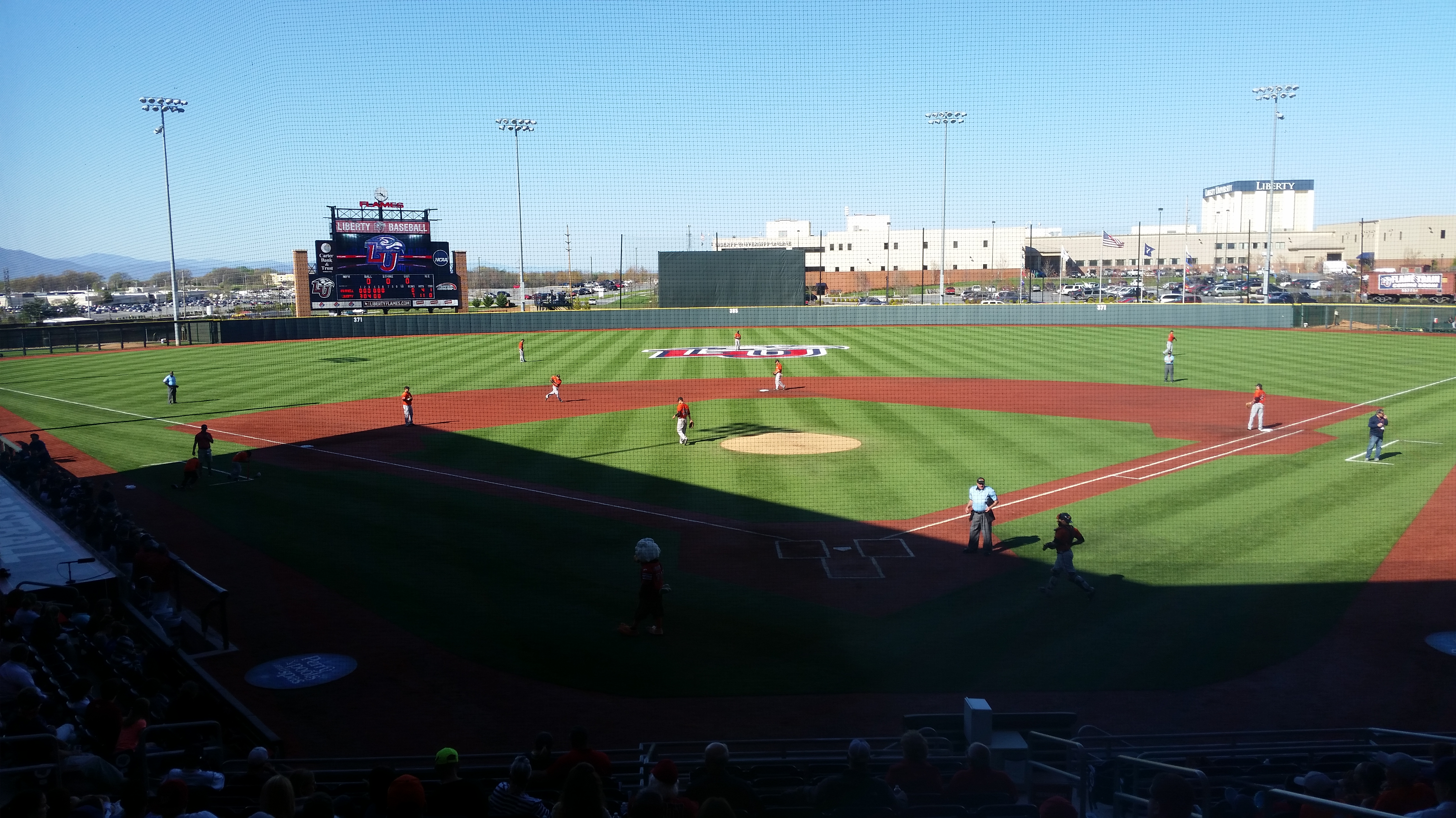 See title